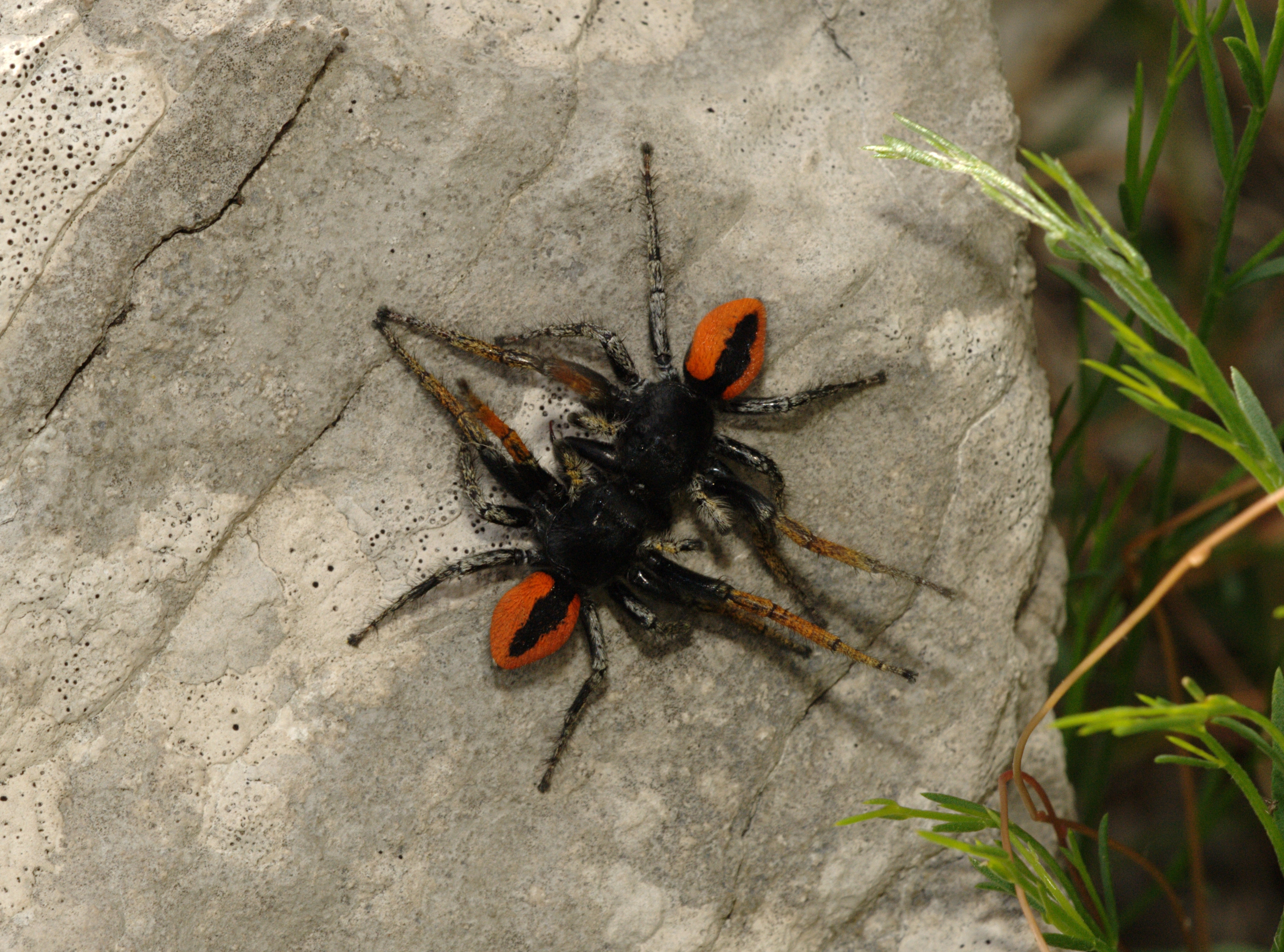 two male Philaeus chrysops fighting for a female